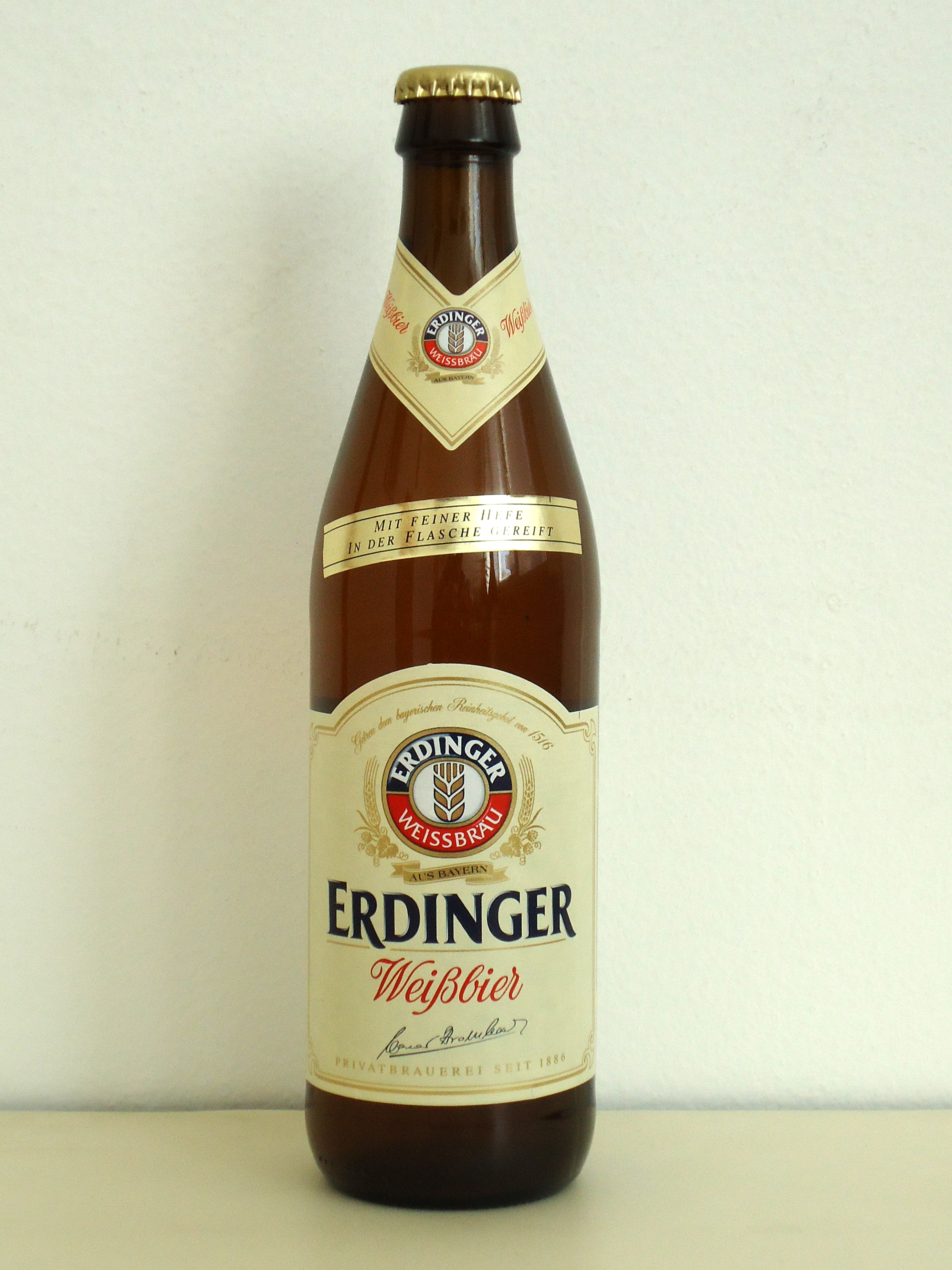 Erdinger Weisbier